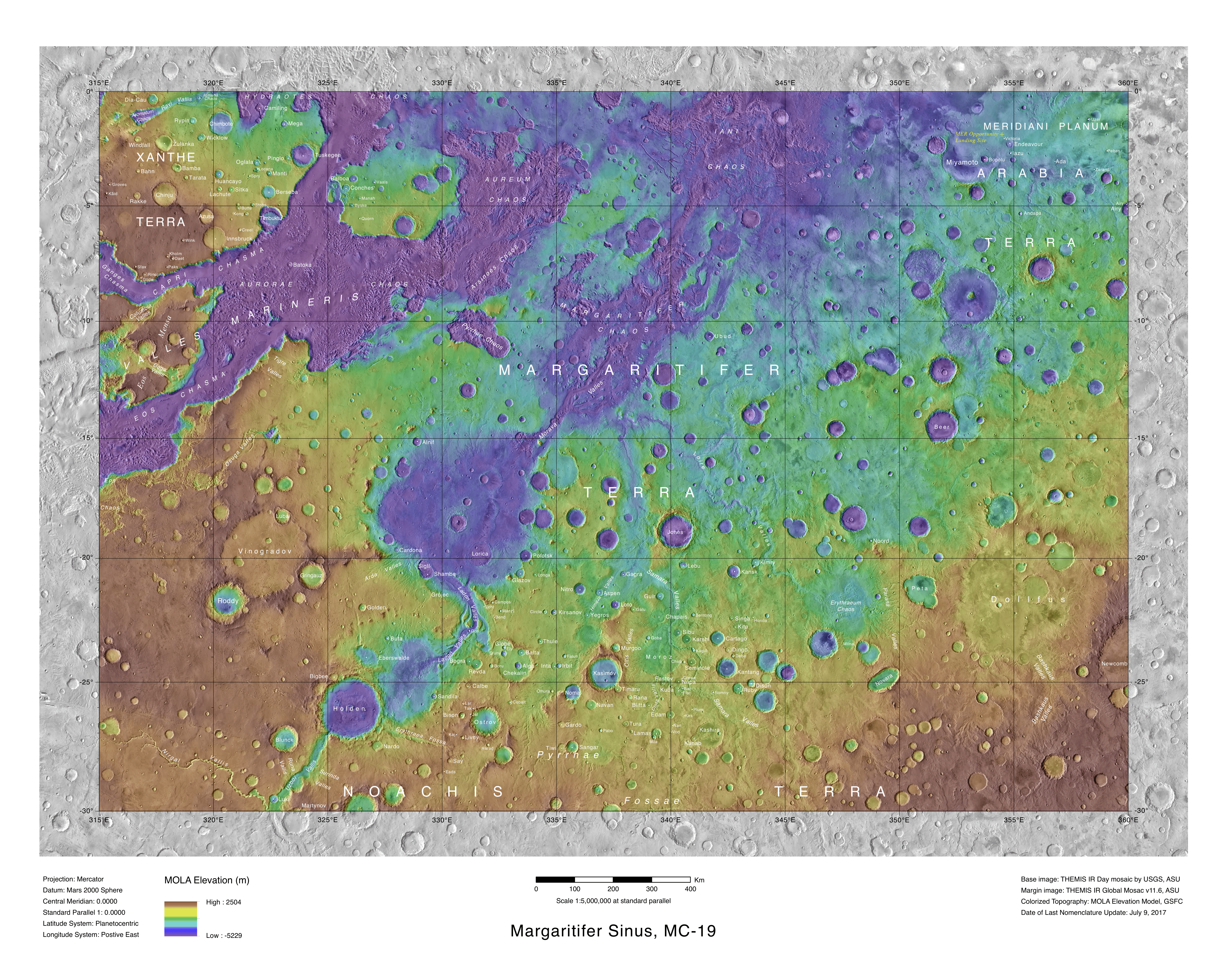 Topo map showing the location of Jones crater and other nearby feature